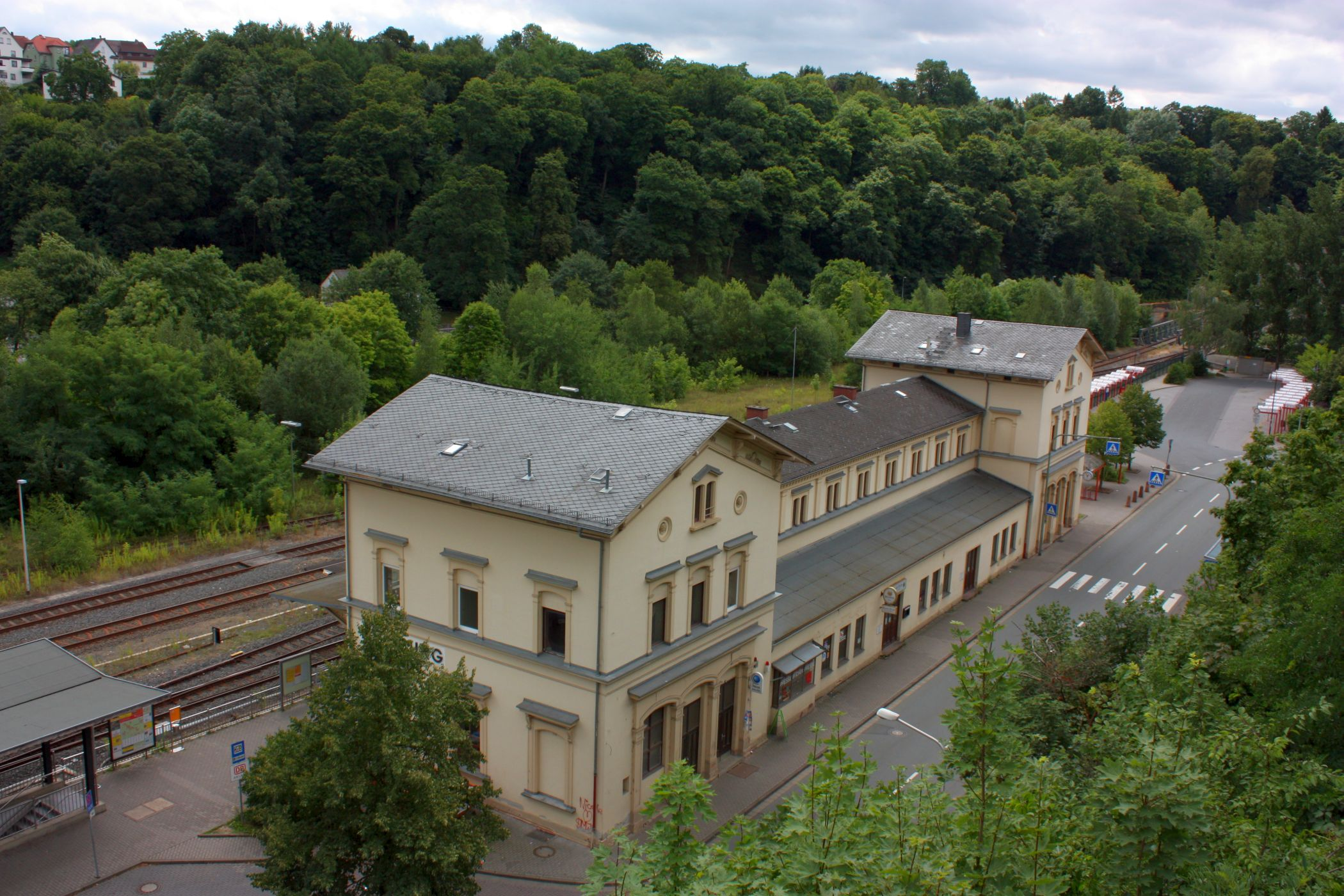 Weilburg station, Hesse. Deutschland